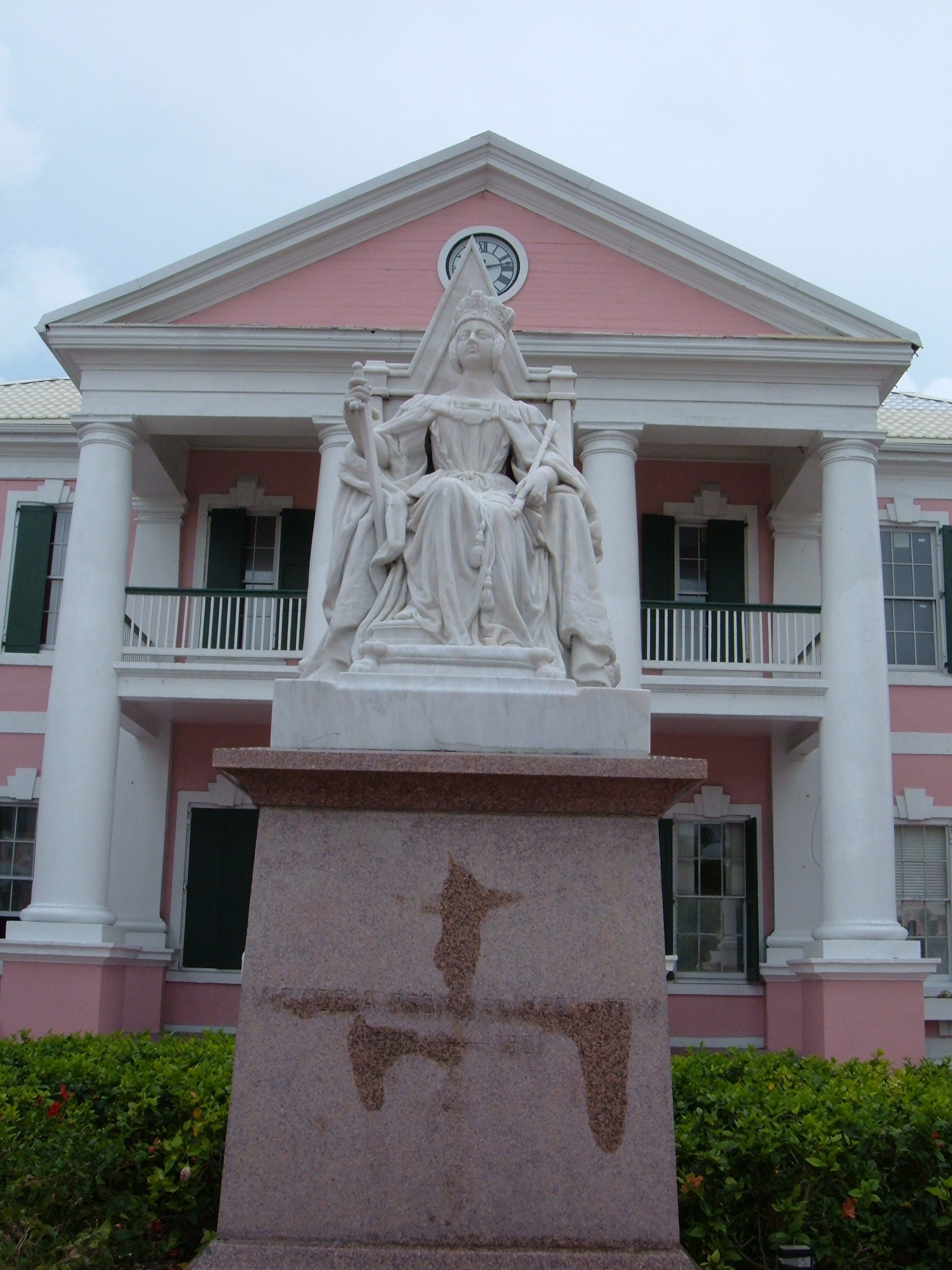 The Parliament of the Bahamas in Nassau.